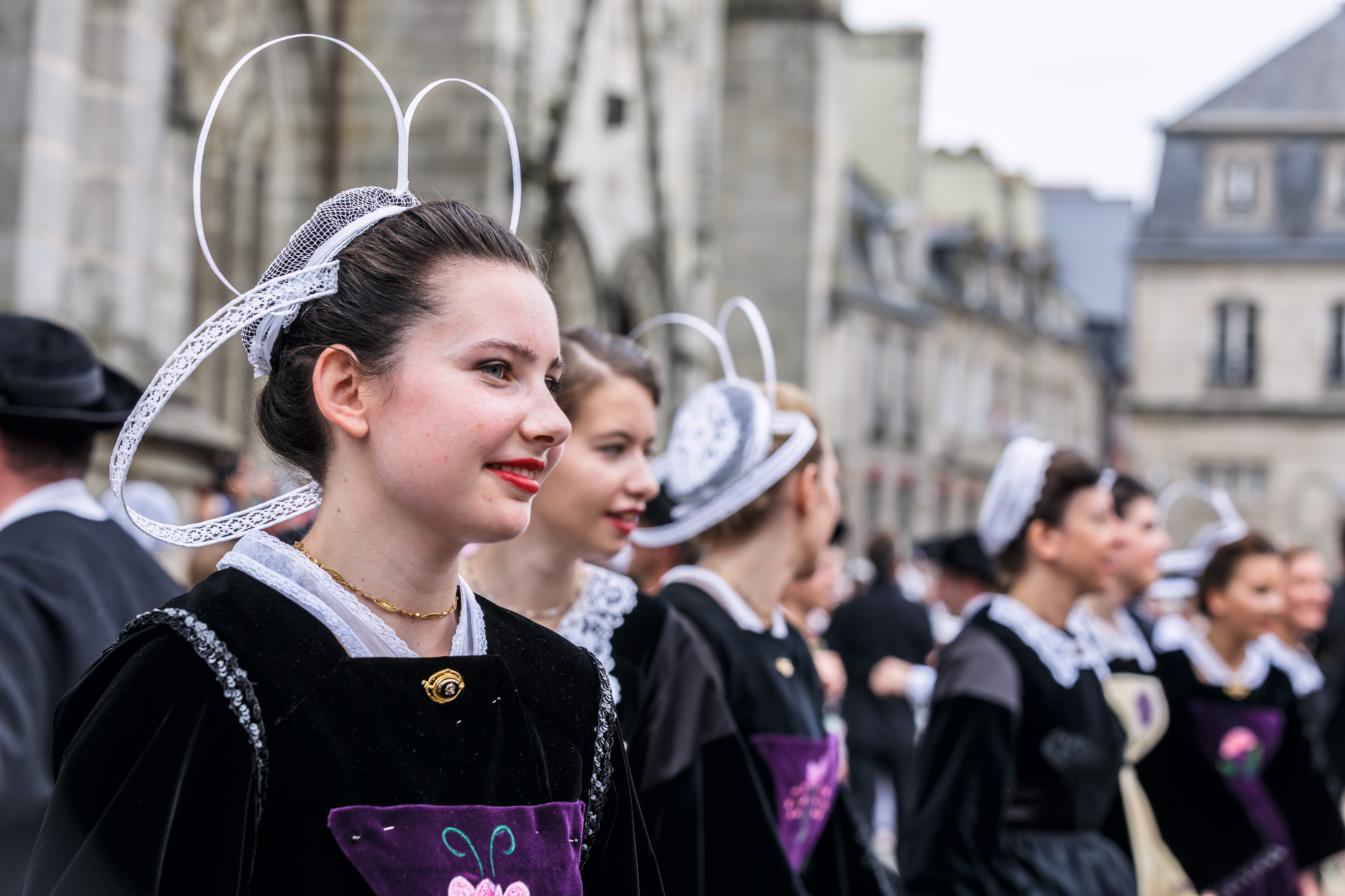 Parade of Breton folk groups during the 2016 Cornouaille Festival in the streets of Quimper.